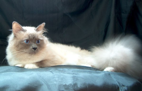 Claudia Zaino, Blu-point, adult male, Albafeles Sacred Birmans Courtesy of